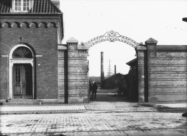 Øresund's chemiske Fabriker, demolished factory in Østerbro, Copenhagen.